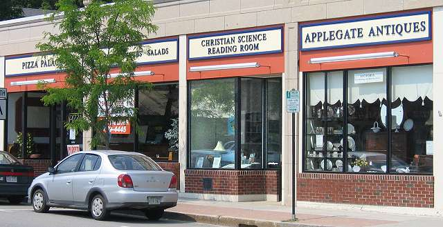 A typical storefront Christian Science Reading Room on the main street of a Boston suburb. Copyright ©2006 by Daniel P. B. Smith and released under the terms of the GFDL.